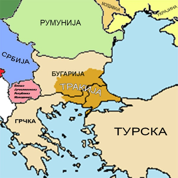 Map of Thrace. Српски (ћирилица): Карта Тракије.